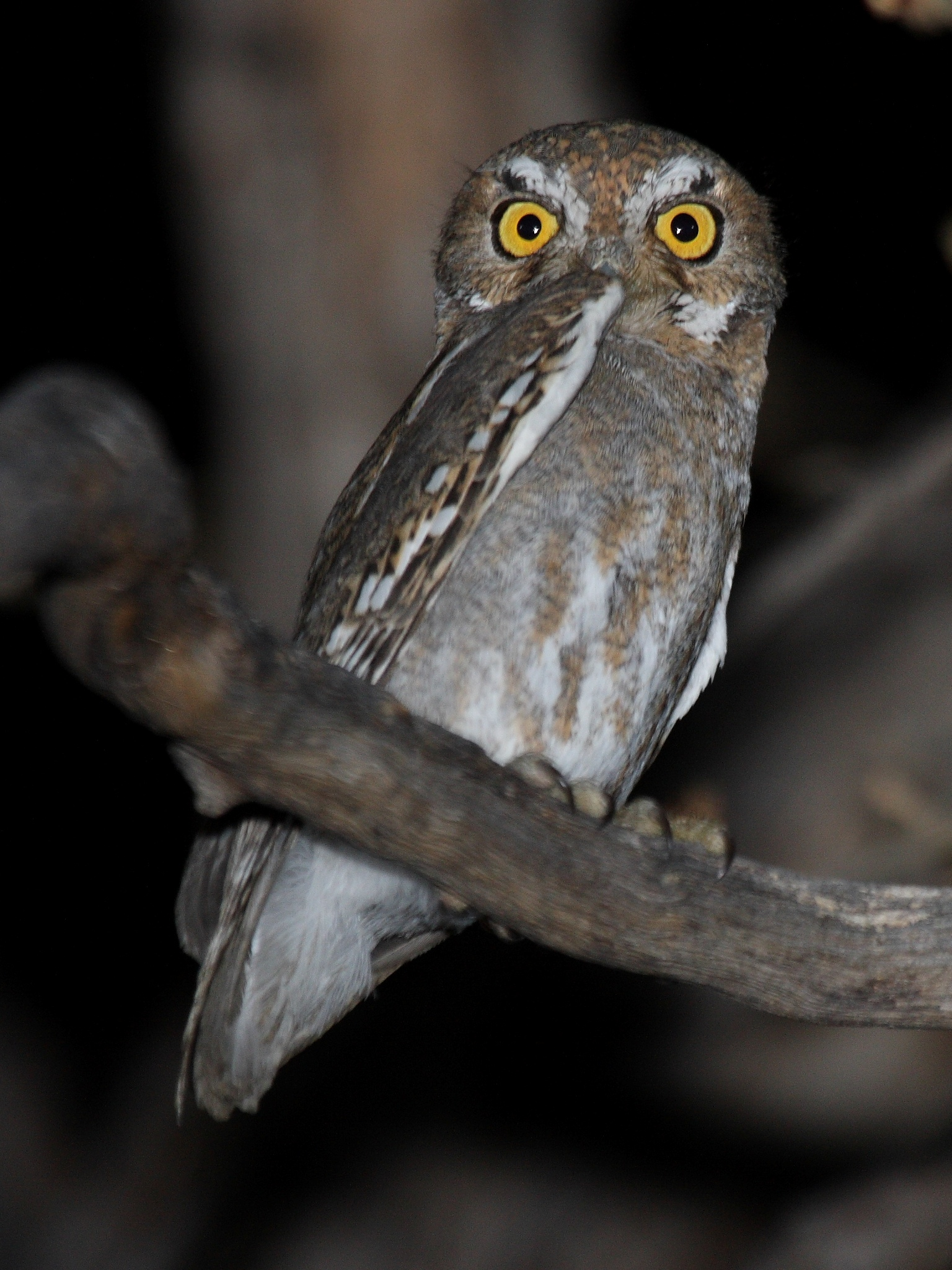 Elf Owl (Micrathene whitneyi) in Madera Canyon, Arizona.